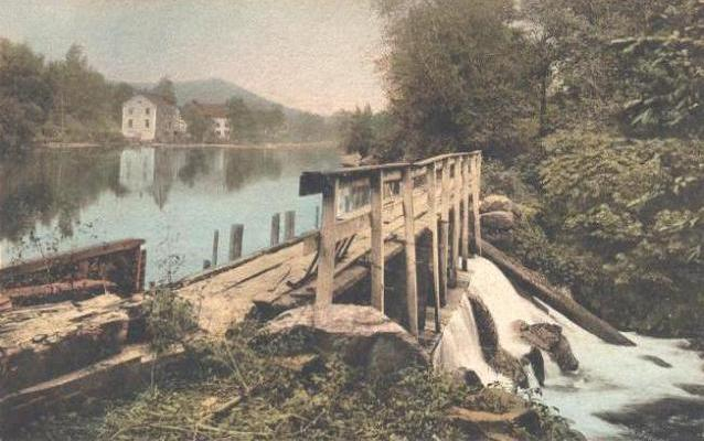 View of the mill dam, Ashland, New Hampshire